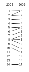 Variants by section between versions 2005 and 2009 of Alice Munro's story "Wenlock Edge"